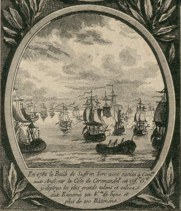 Allegorical engraving on the fighting of Suffren on the Coromandel Coast (India). Approximate translation : In 1782, Suffren leads four fighting against the English on the Coromandel Coast. This officer demonstrates his talent by taking the enemies a vessel of line and over a hundred vessels (trade or the company of the Indies).